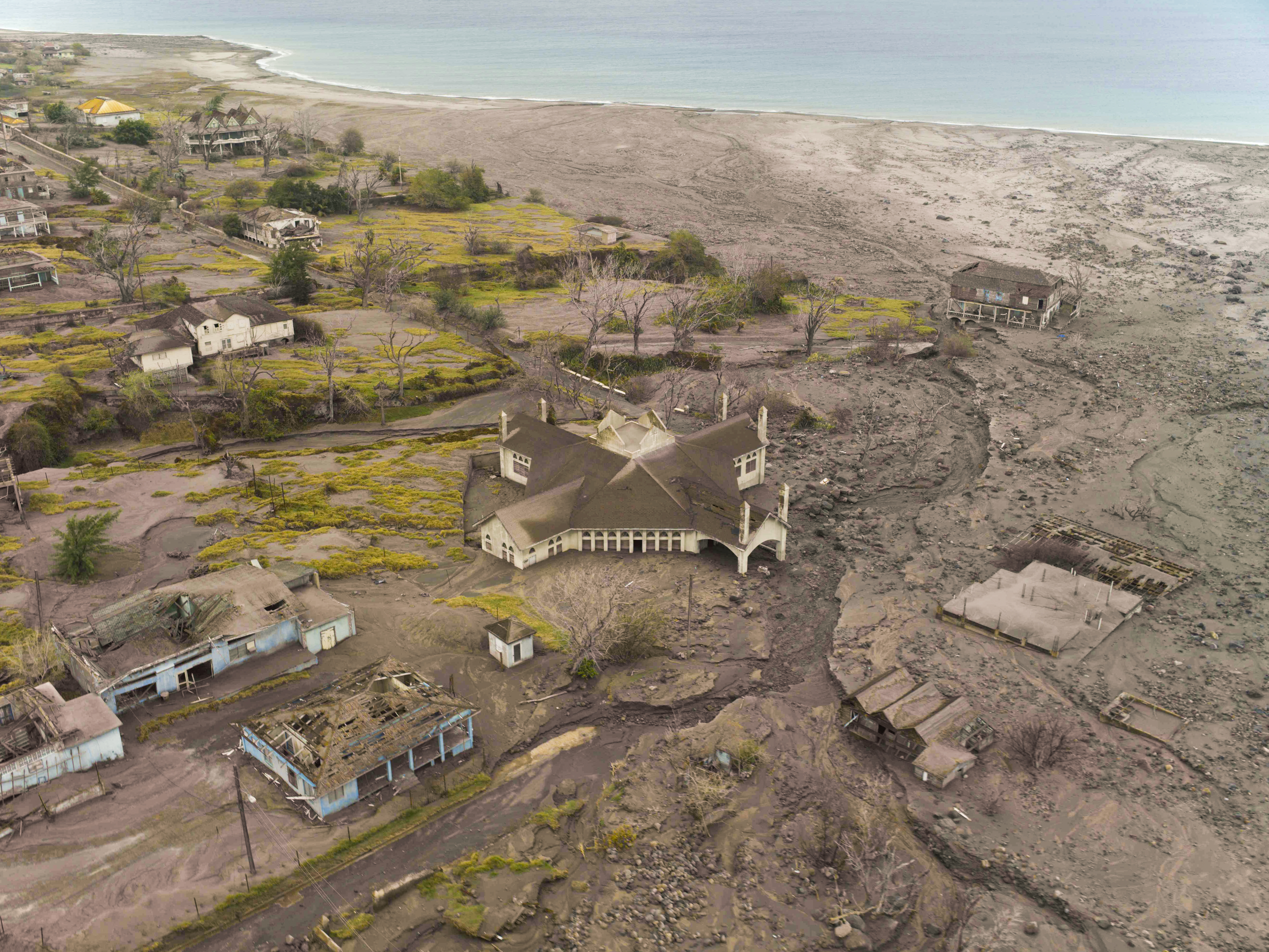 On the island of Montserrat, Soufrière Hills Volcano erupted in 1997 (and several times subsequently), destroying the capital city of Plymouth.